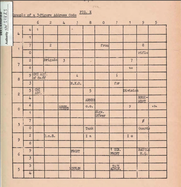 Figure X of TICOM document I-19d Report on Interrogation of KONA 1 at Revin, France, June 1945. Image is of 3-Figure Address Code book Other information Image is printer on Orange Blotter paper. All TICOM documents are in the public domain, and this has already been decided by Dianna.